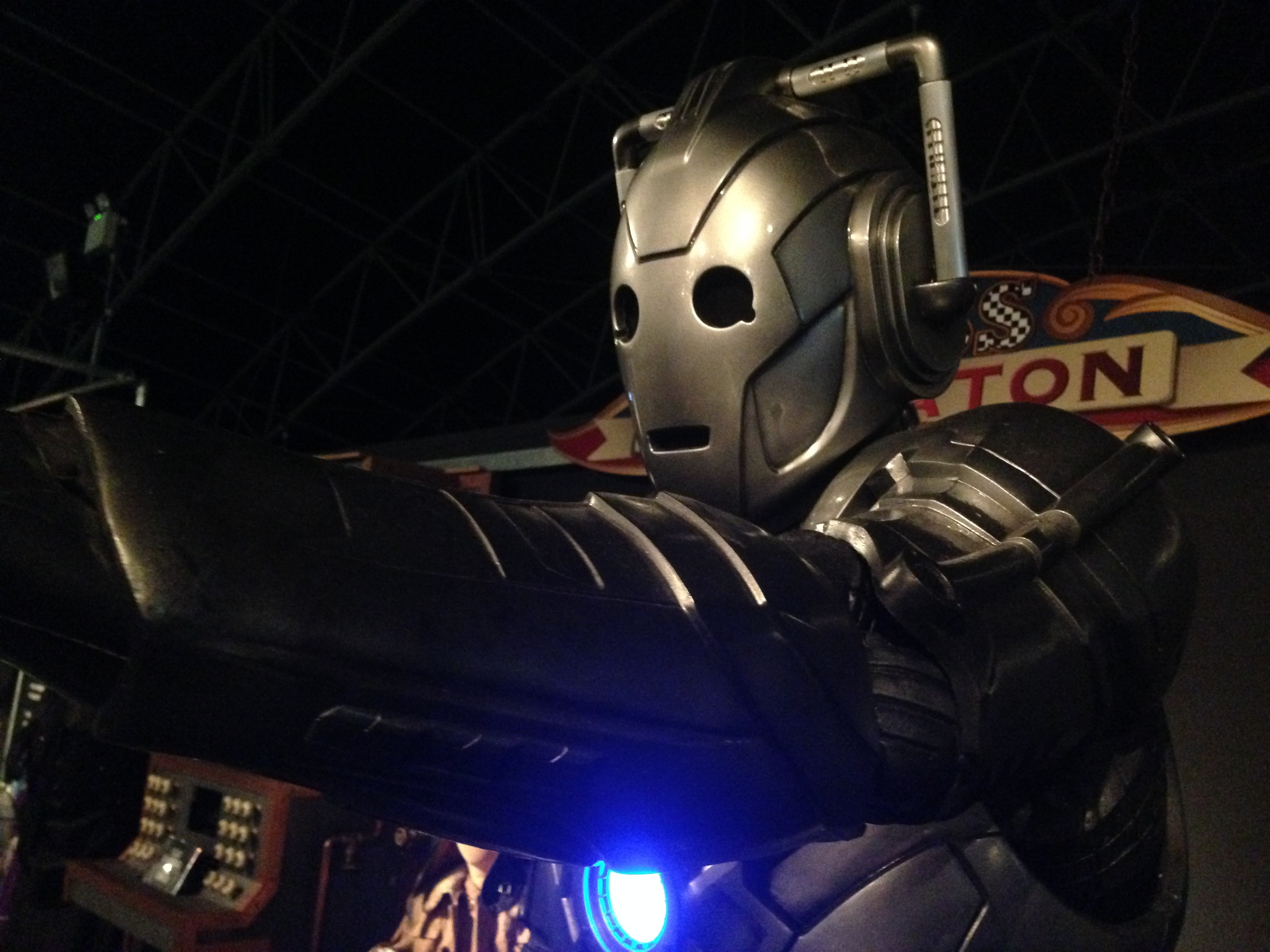 La Doctor Who Experience à Cardiff Doctor Who Experience